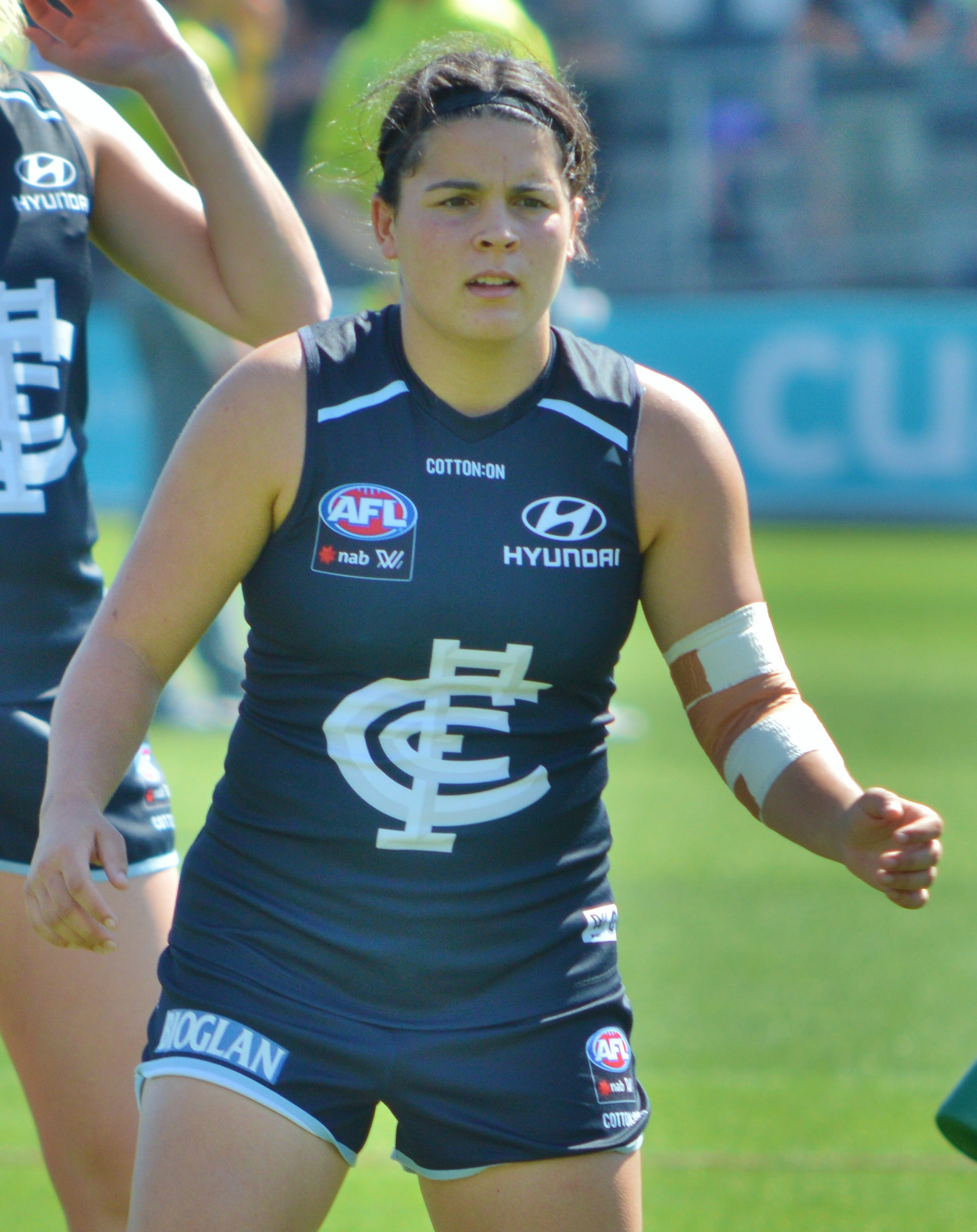 Madison Prespakis with Carlton during a preliminary final against Fremantle at Ikon Park in March 2019.